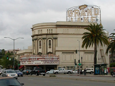 The Grand Lake Theater — in Oakland, California. Looking east to the movie theater while standing on Grand Avenue. Photo taken by Aran Johnson (user: Konky2000) in May 2005.